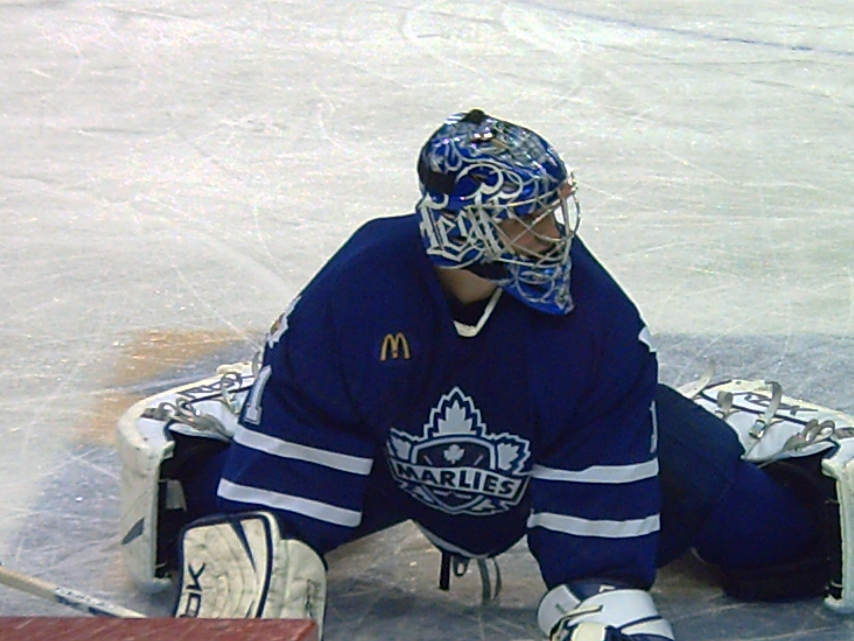 Justin Pogge, Toronto Marlies - Bulldogs game, Feb 16, 2007; author: Daniel Hausner